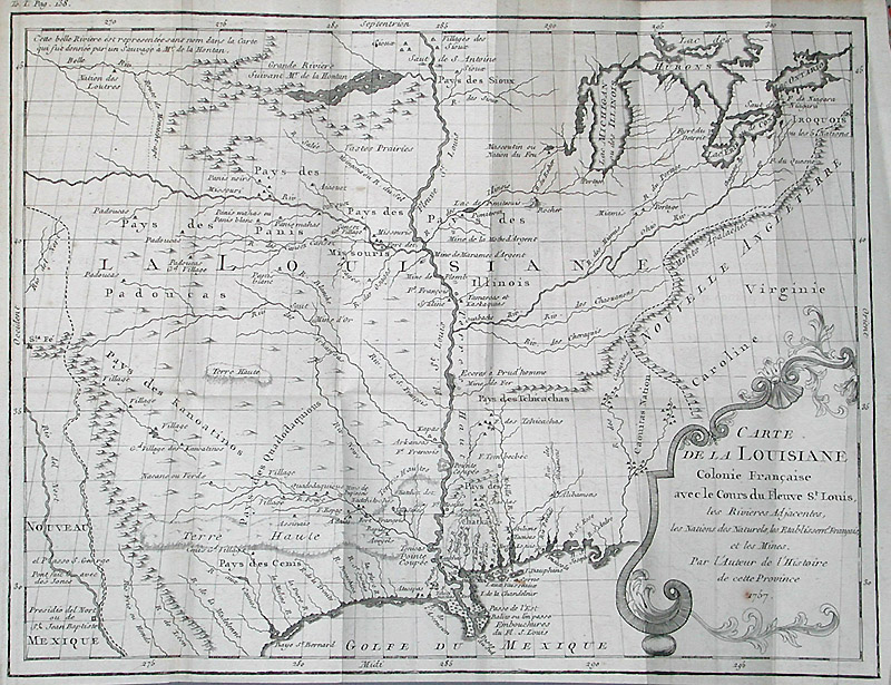 Map of Louisiana, from Antoine-Simon Le Page du Pratz.